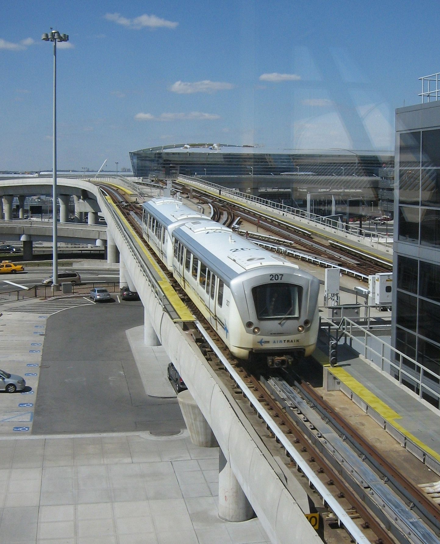 JFK airport new york